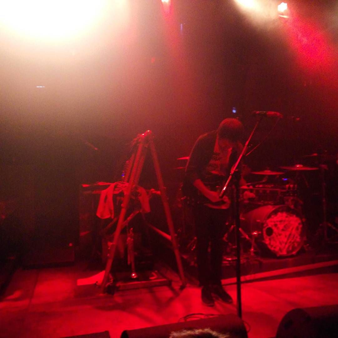 British band Enter Shikari live in Gdańsk, 2015